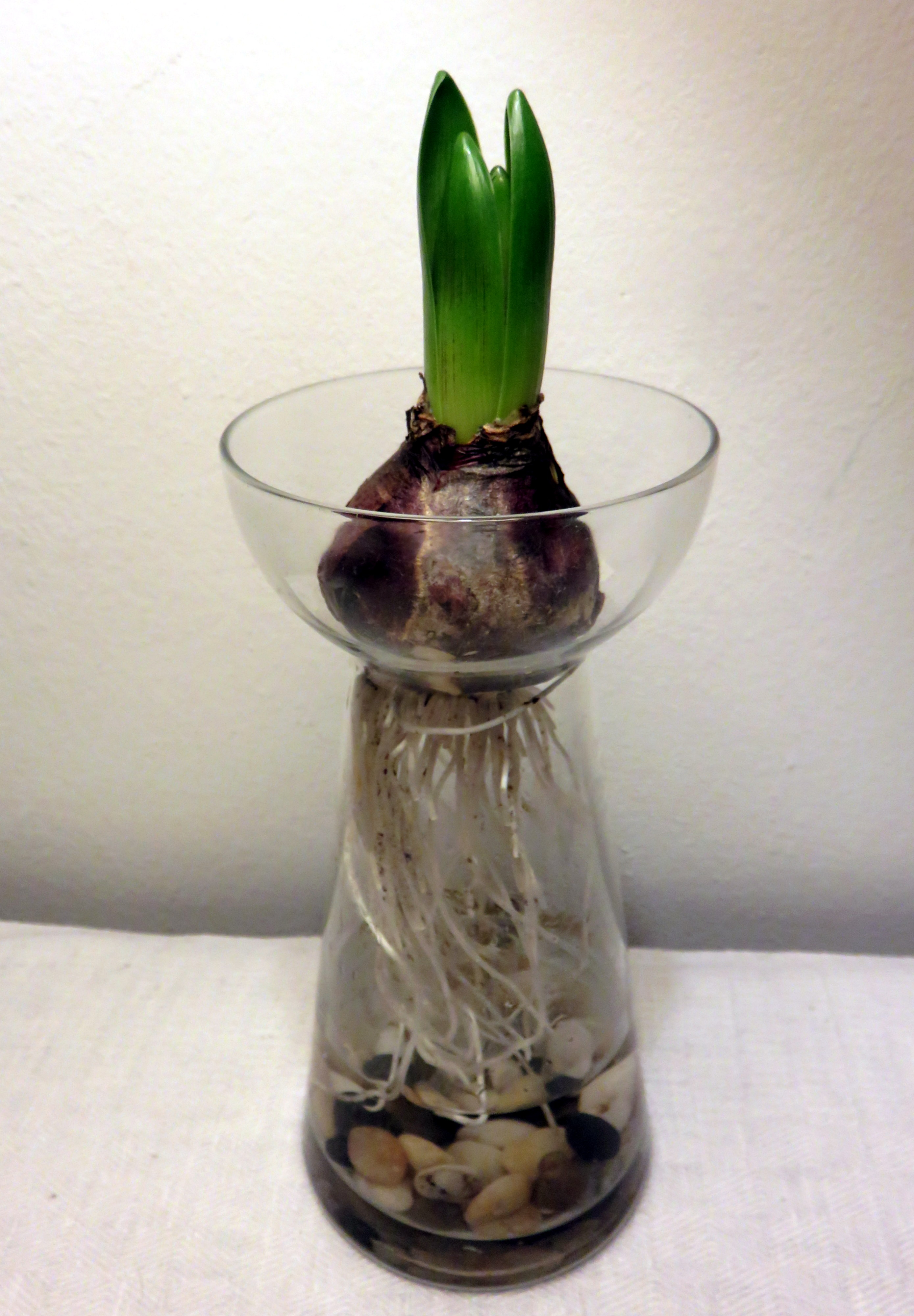 Special glass for Hyacinth culture.